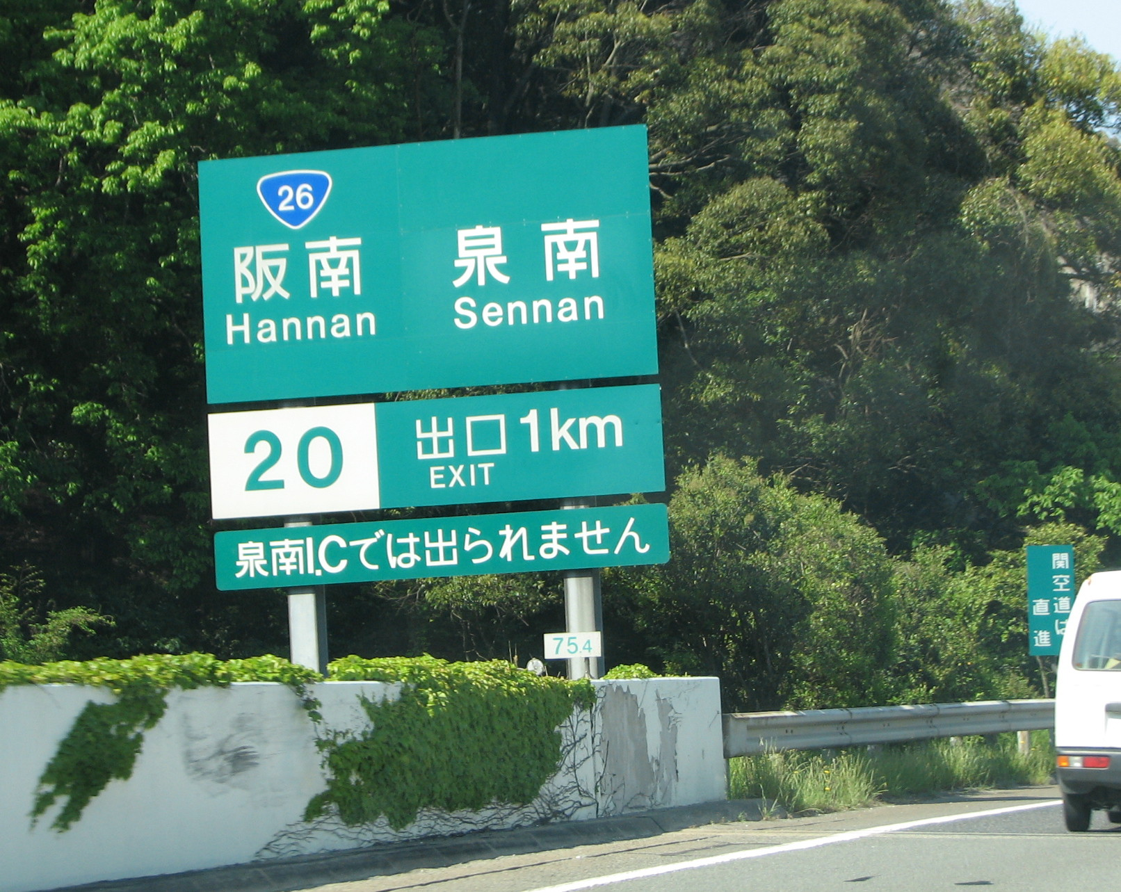 Hannan IC